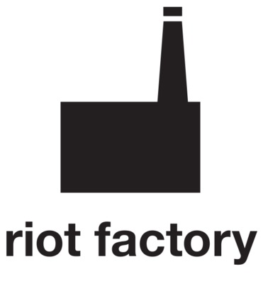 Logo for the Norwegian independent record label Riot Factory.